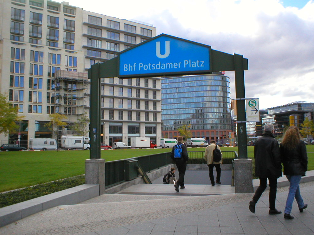 Entrance to the Berlin U-Bahn station Potsdamer Platz (line U2)